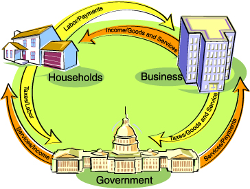 Cartoon of the circular flow concept in economics